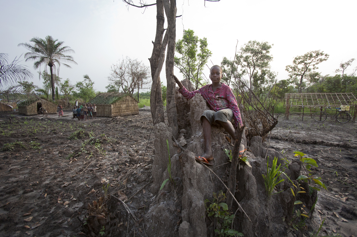 IDP camp in Dungu, the 10th of May 2012. © MONUSCO/Sylvain Liechti